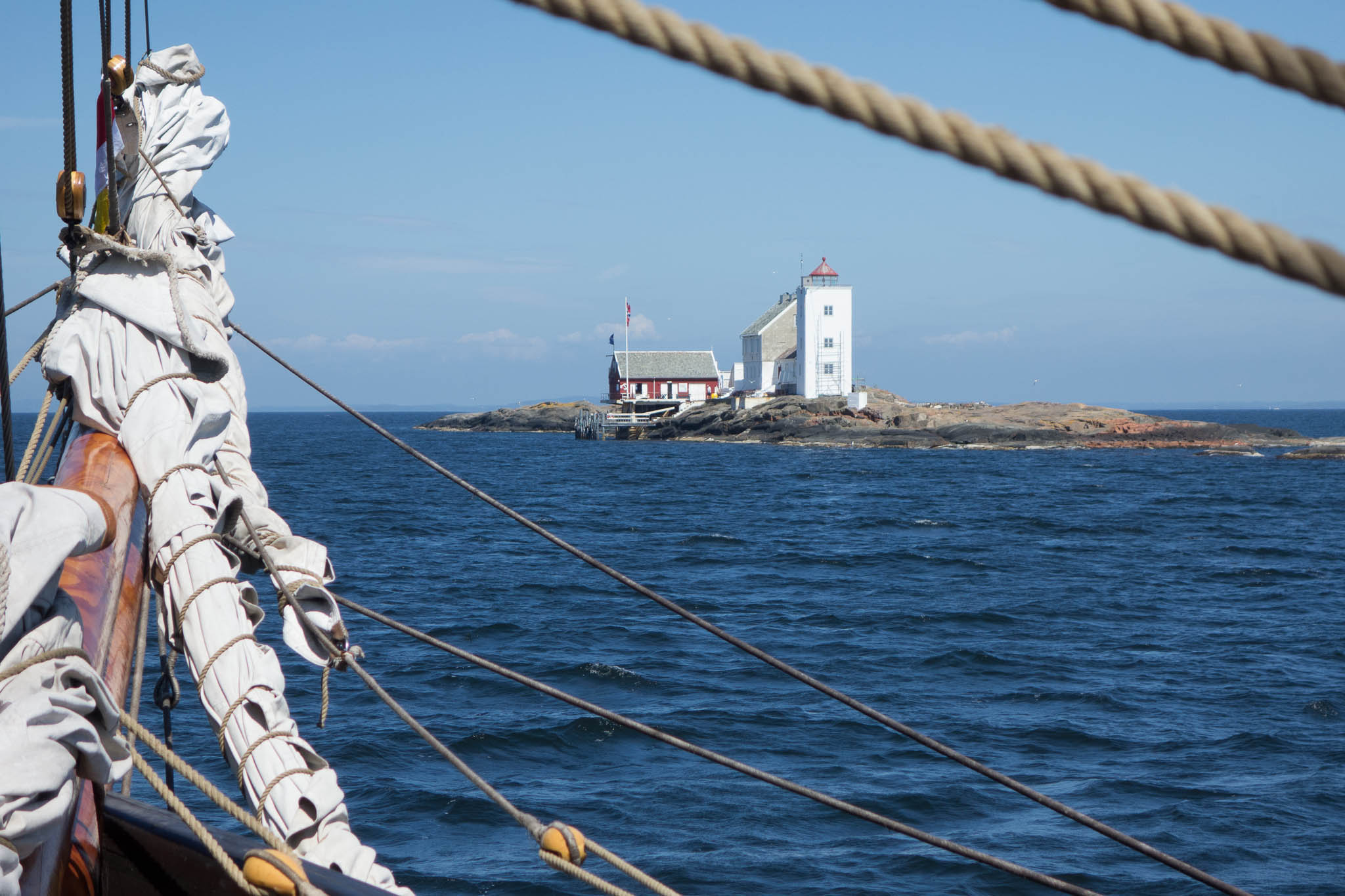 Fulehuk Lighthouse in the Oslo fjord